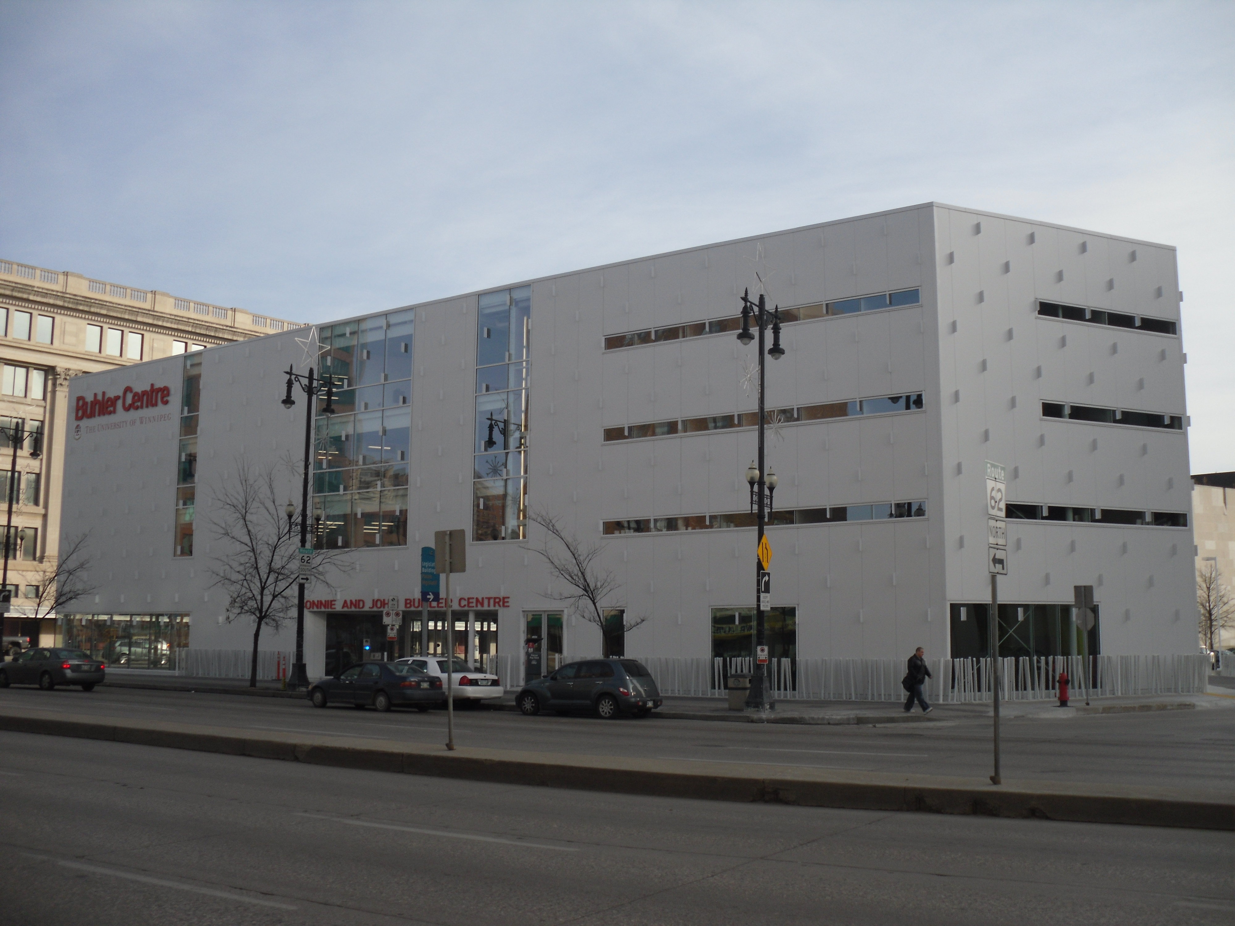 The University of Winnipeg's Buhler Centre on Portage Avenue, built in 2010.